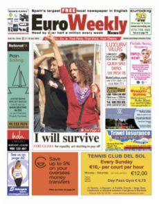 July 9-15, 2015, Issue 1566